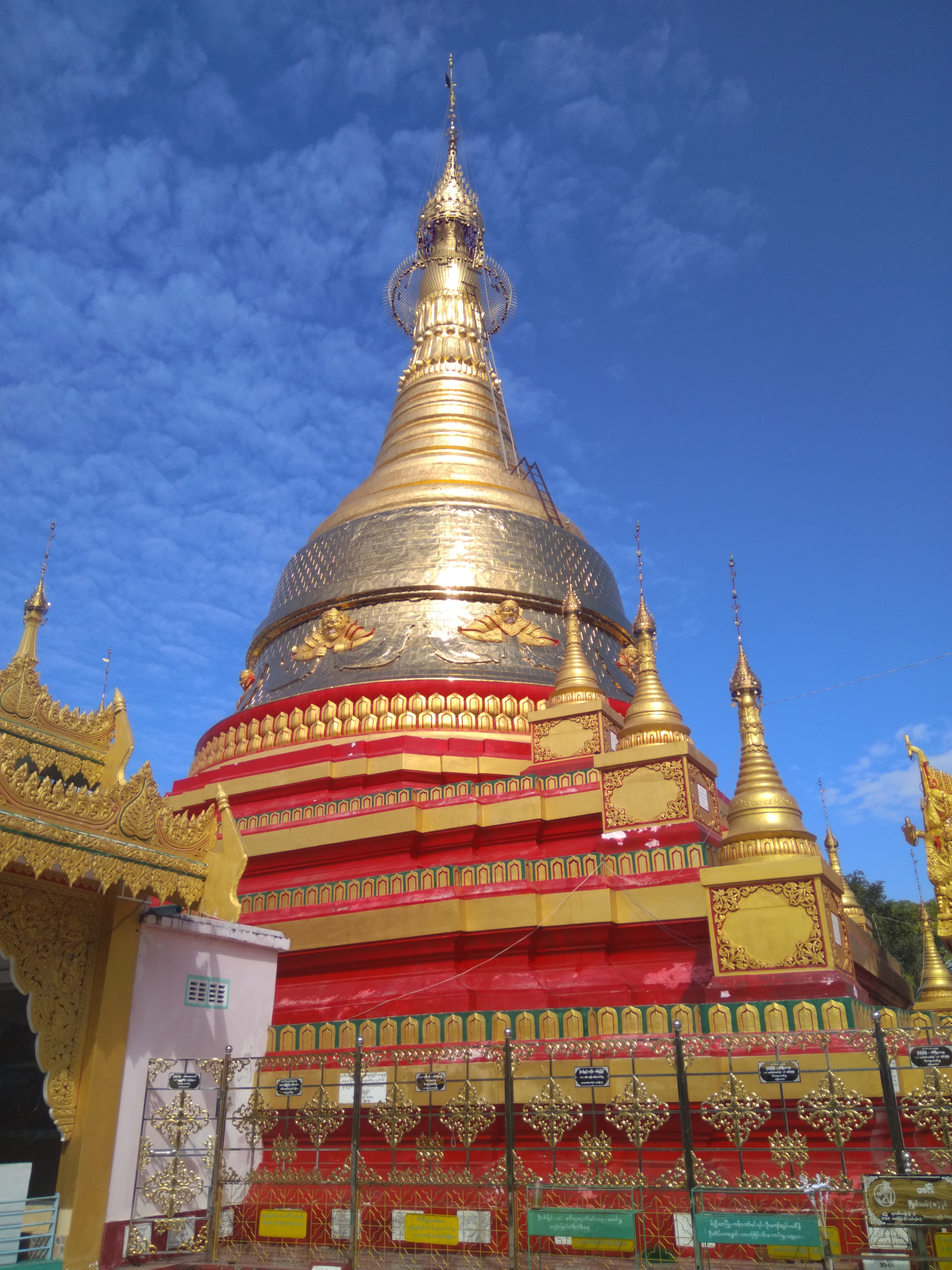 Shwe Yin Hmyaw Pagoda